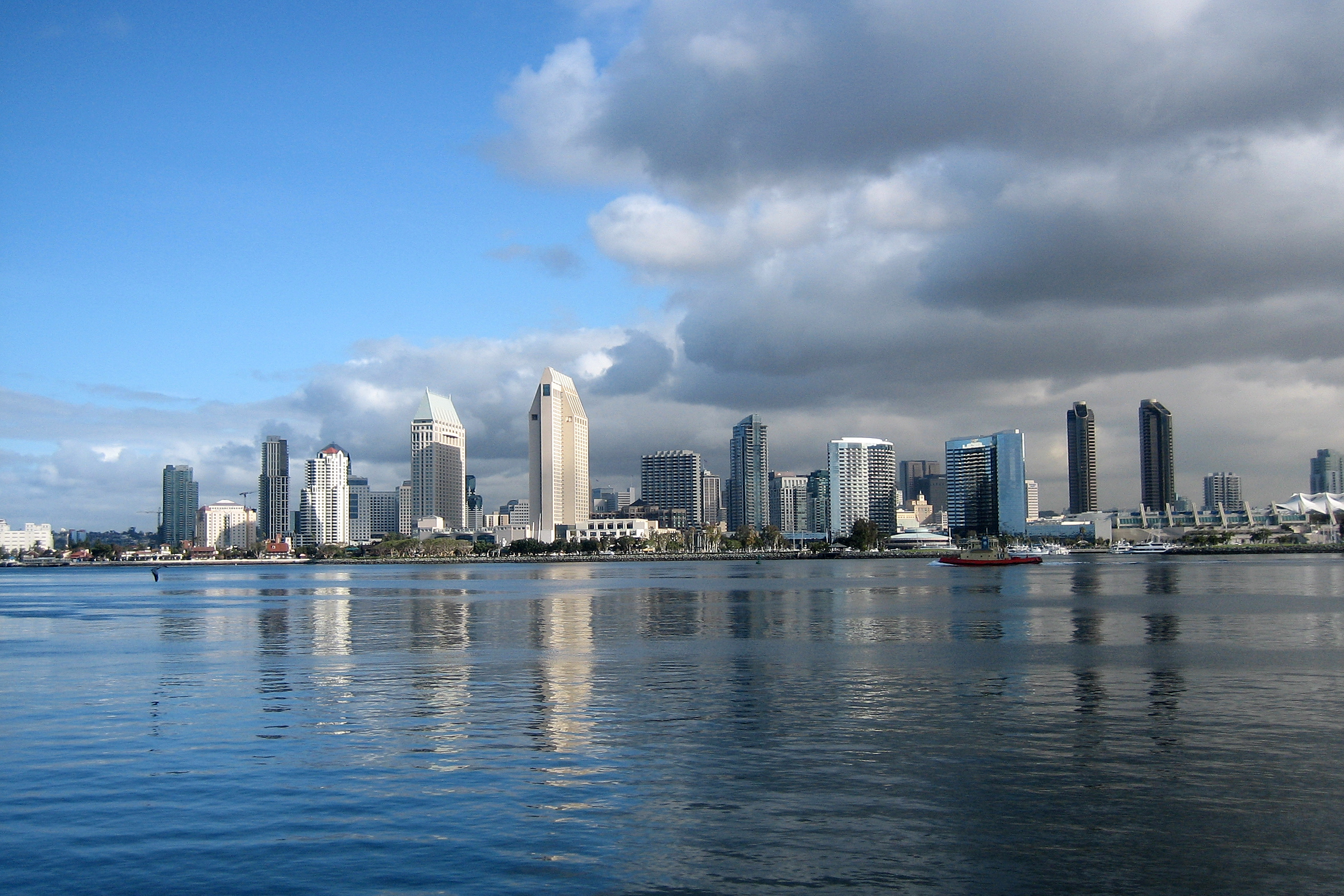 San Diego Skyline